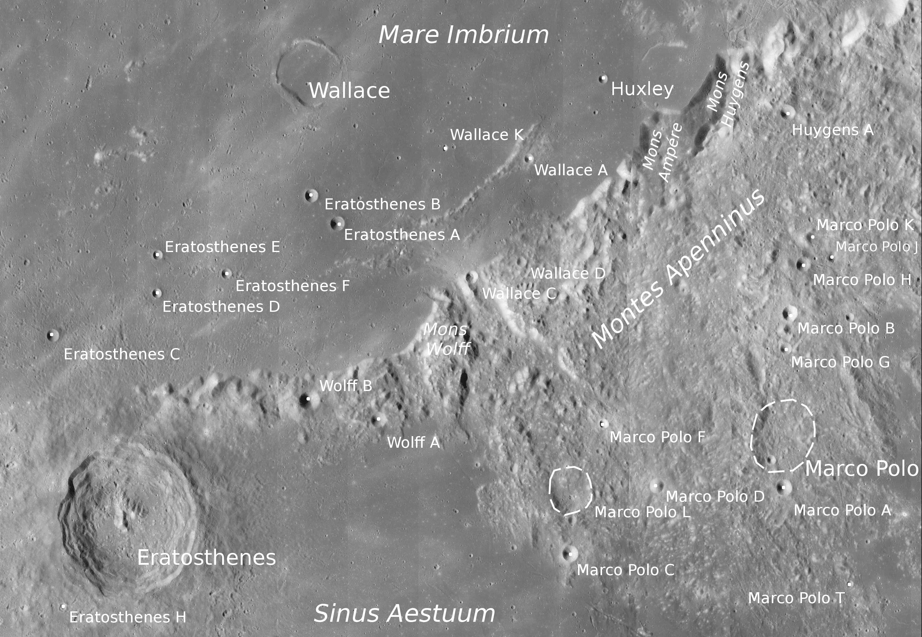 Crater Eratosthenes and western part of Montes Apenninus (detail of LRO - WAC global moon mosaic; Mercator projection)